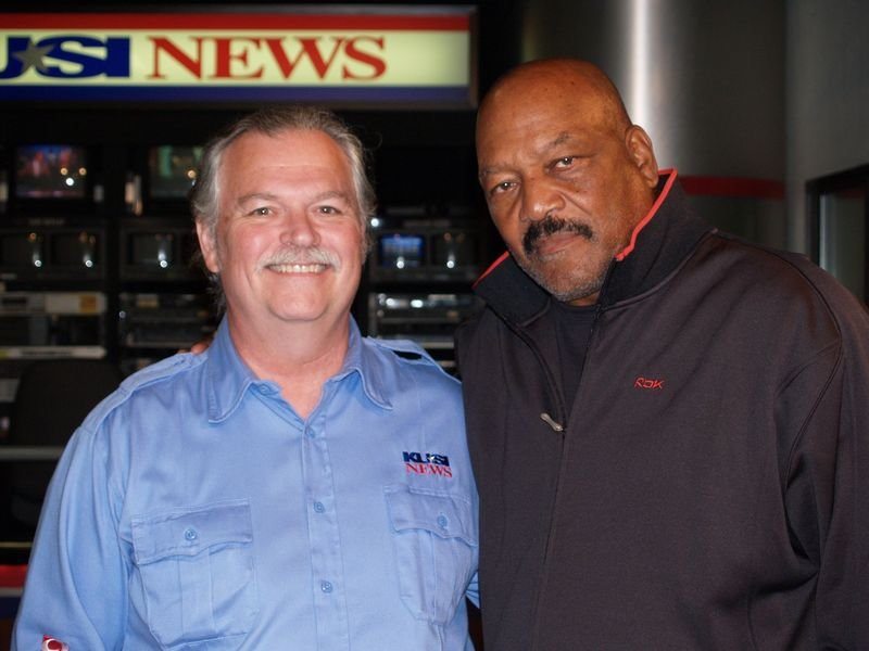 Football Great Jim Brown With Phil Konstantin